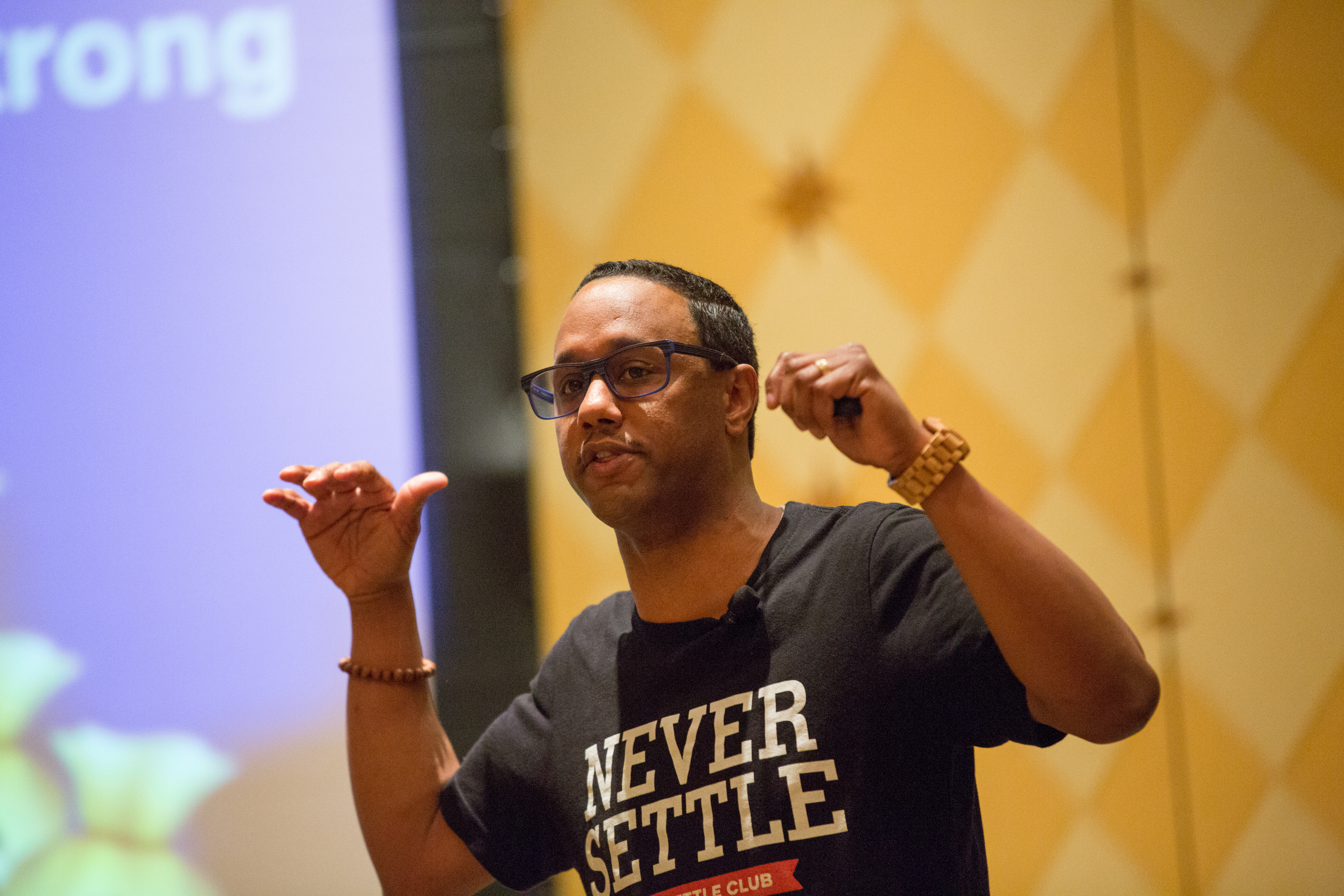 Mario Armstrong